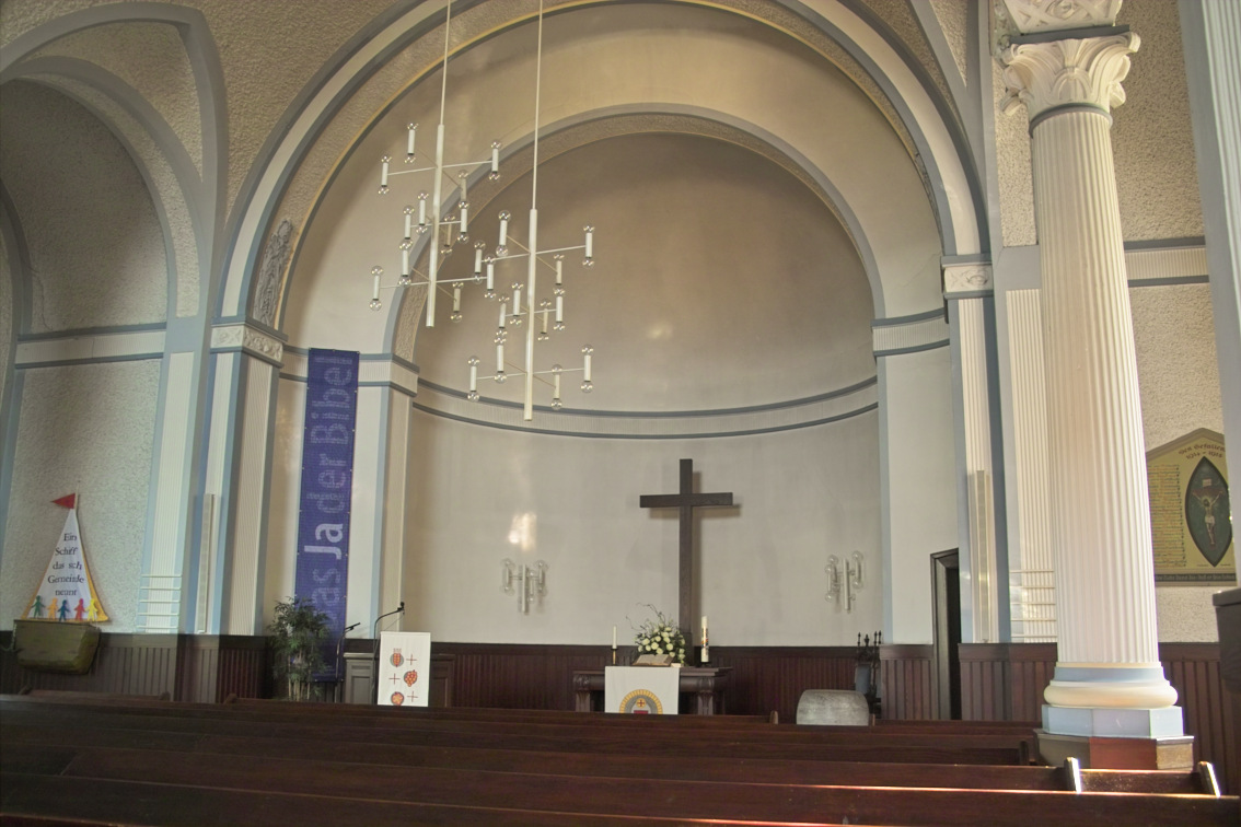 Neanderkirche in Hochdahl, part of Erkrath, Germany.